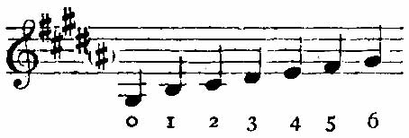 Scale for the short (or melody) pipe of an arghul (an Egyptian musical instrument).